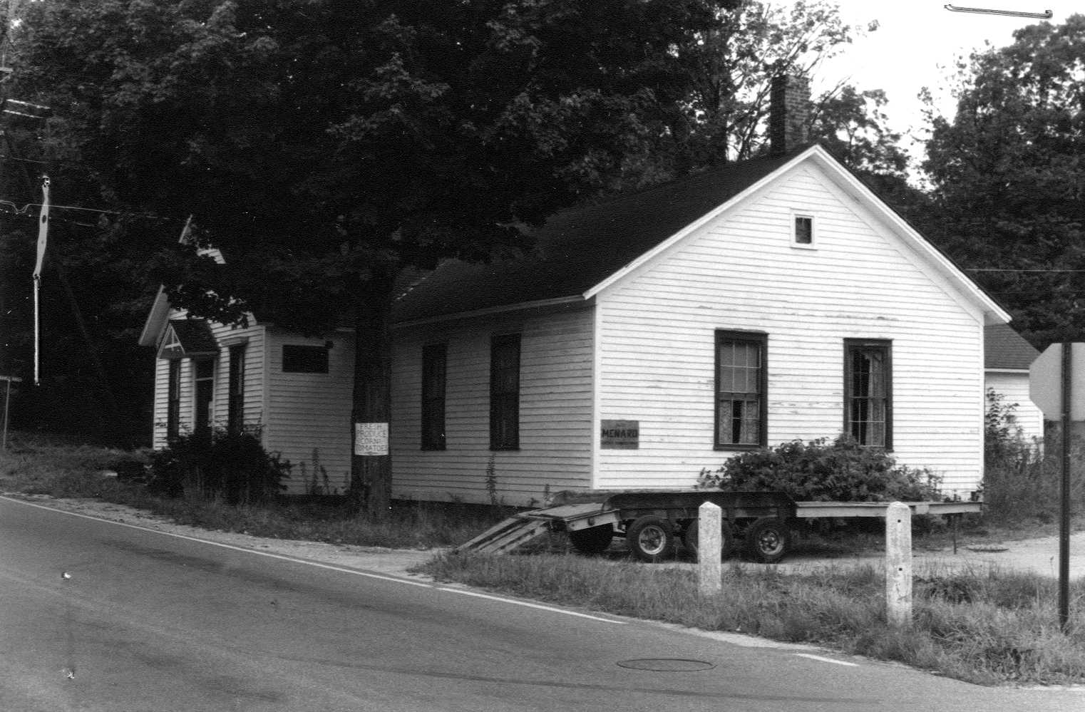 The former Dalton Grange Hall No. 23, Dalton, Massachusetts. Demolished in 1983.